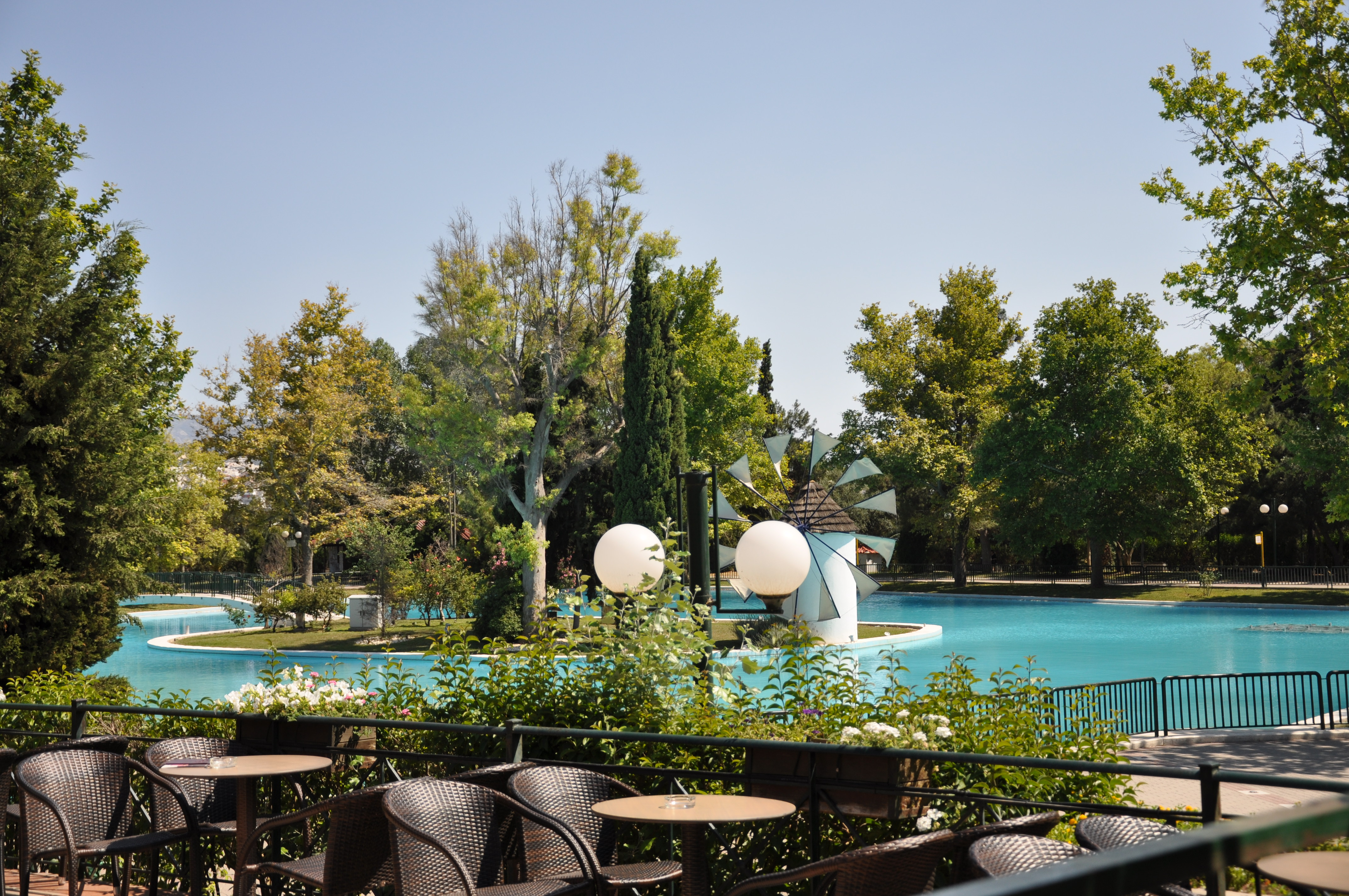 the artificial lake in the park of Nea Filadelfia, Athens, Greece.